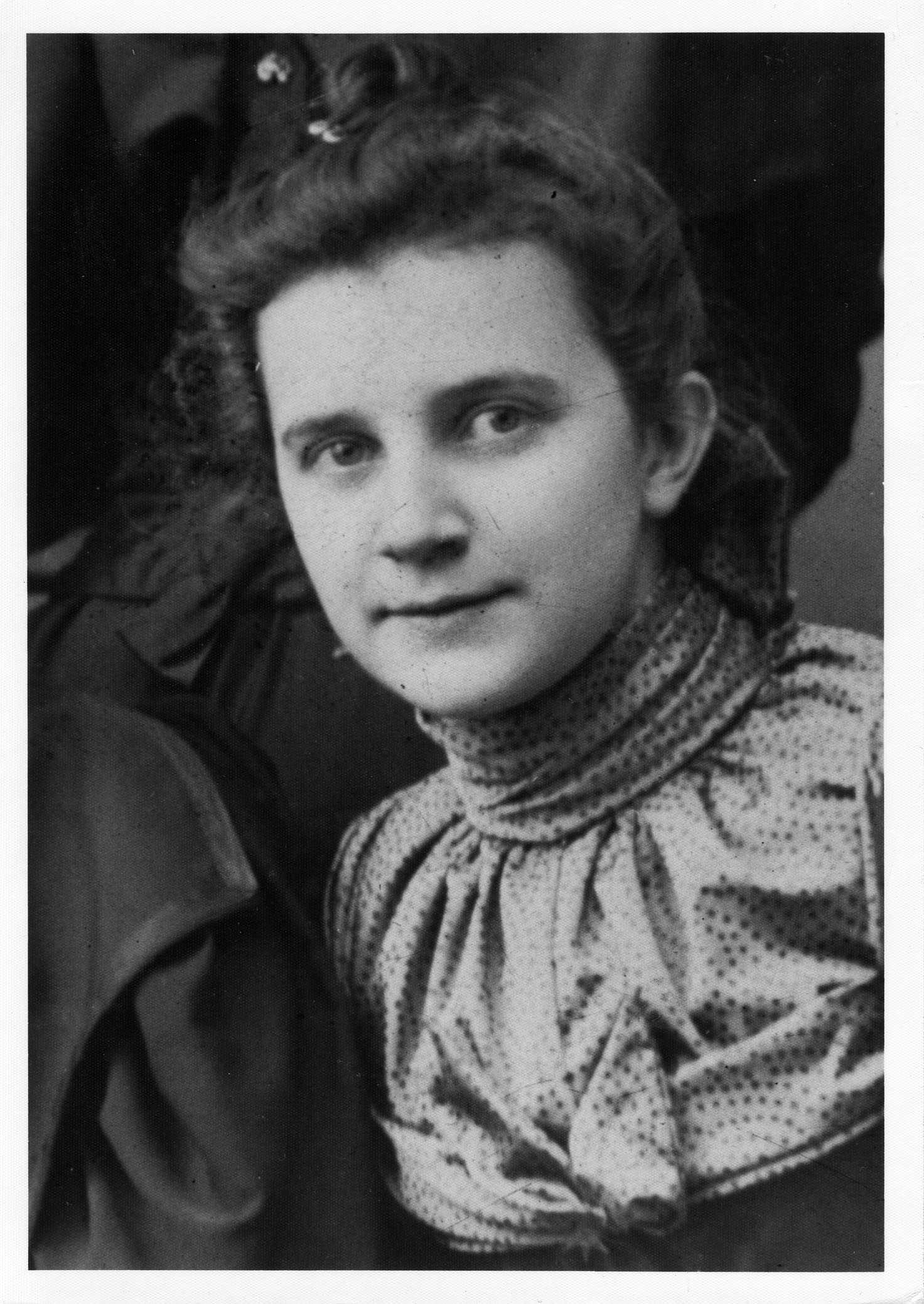 Mary T. Wales, co-founder of Johnson & Wales University in Providence, Rhode Island. Taken ca 1914.